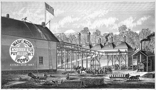 Hop barn and other enterprises of Ezra Meeker, Puyallup, Washington